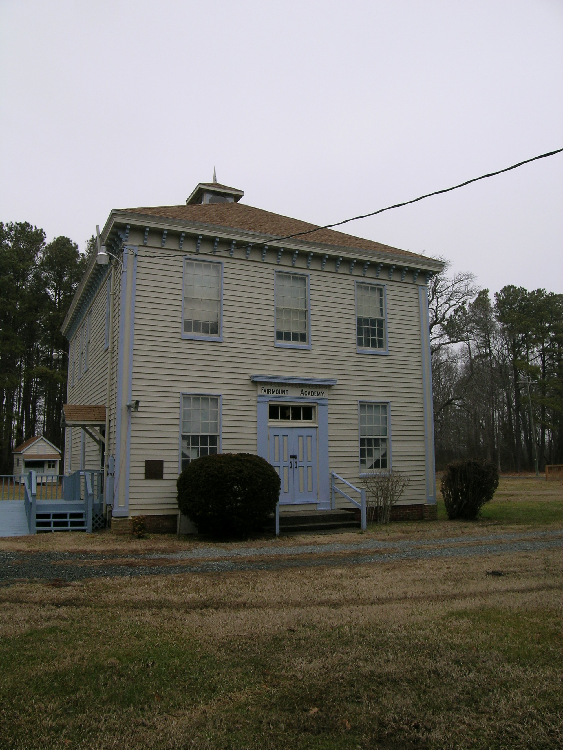 An image of the front of the Fairmount Academy. It was constructed between 1860 and 1867 and was used as a public school.